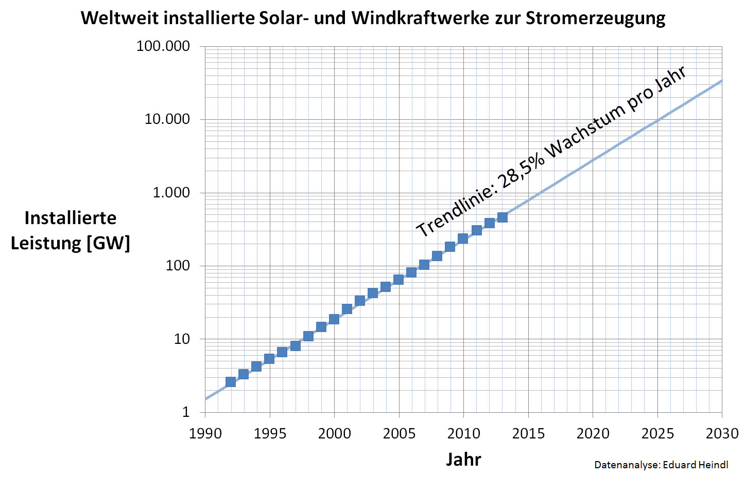 Global growth of the renewable installation sum of solar- and windpower since 1992-2013 and exponential fit of the plot